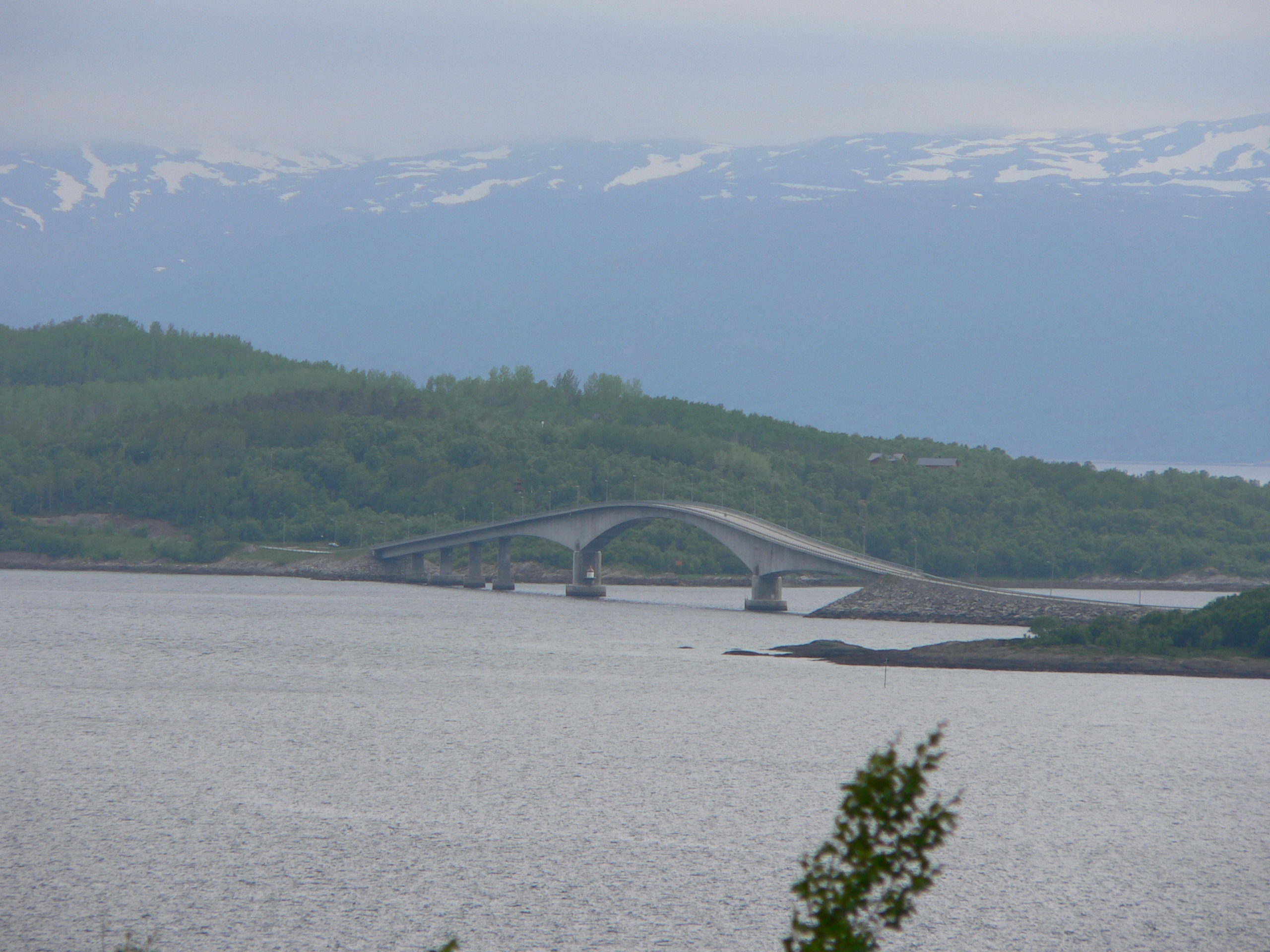 The bridge connecting Dyrøya to the mainland, seen from the Southeast; Dyrøya is on the left.